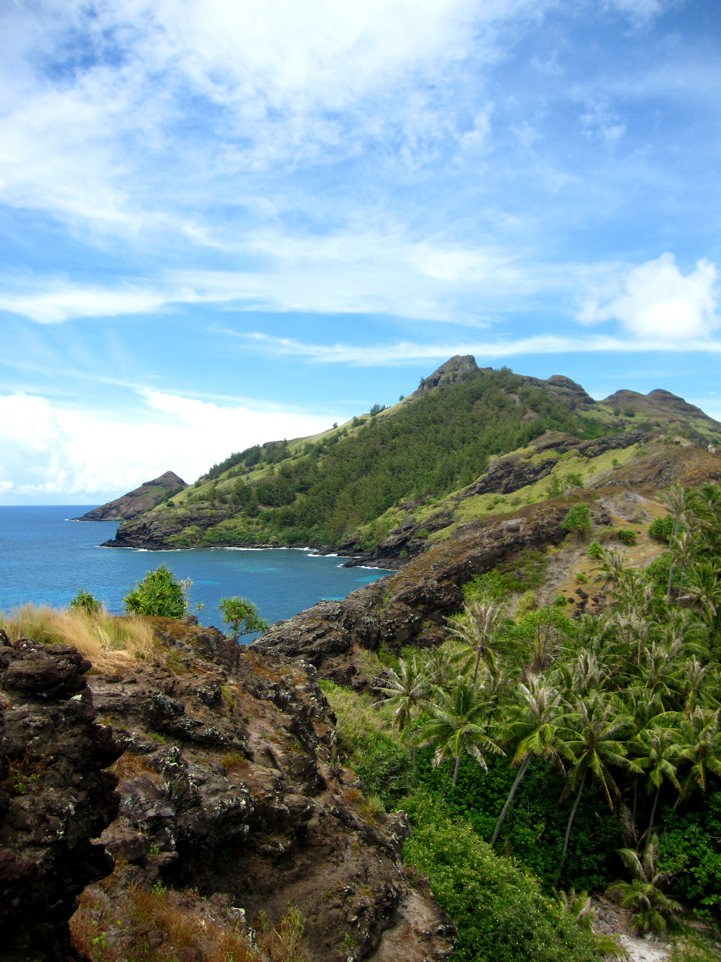 View on Akamaru island on January 2 2014.